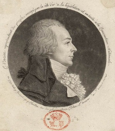 physionotrace